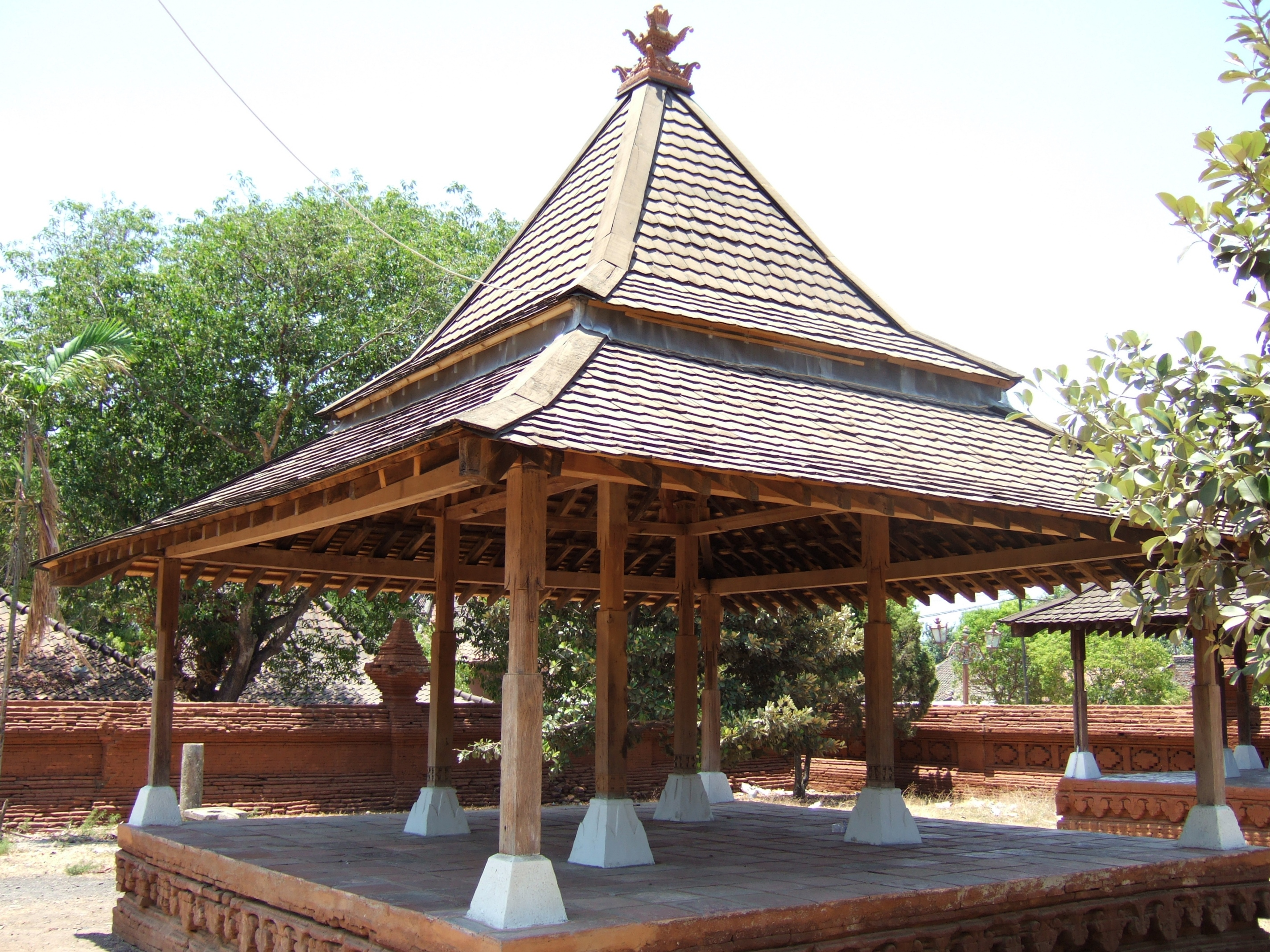 Building inside Kraton of Kasepuhan complex, Cirebon, Indonesia